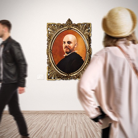 In Transit LP released June 30, 2014 on Scissor Records